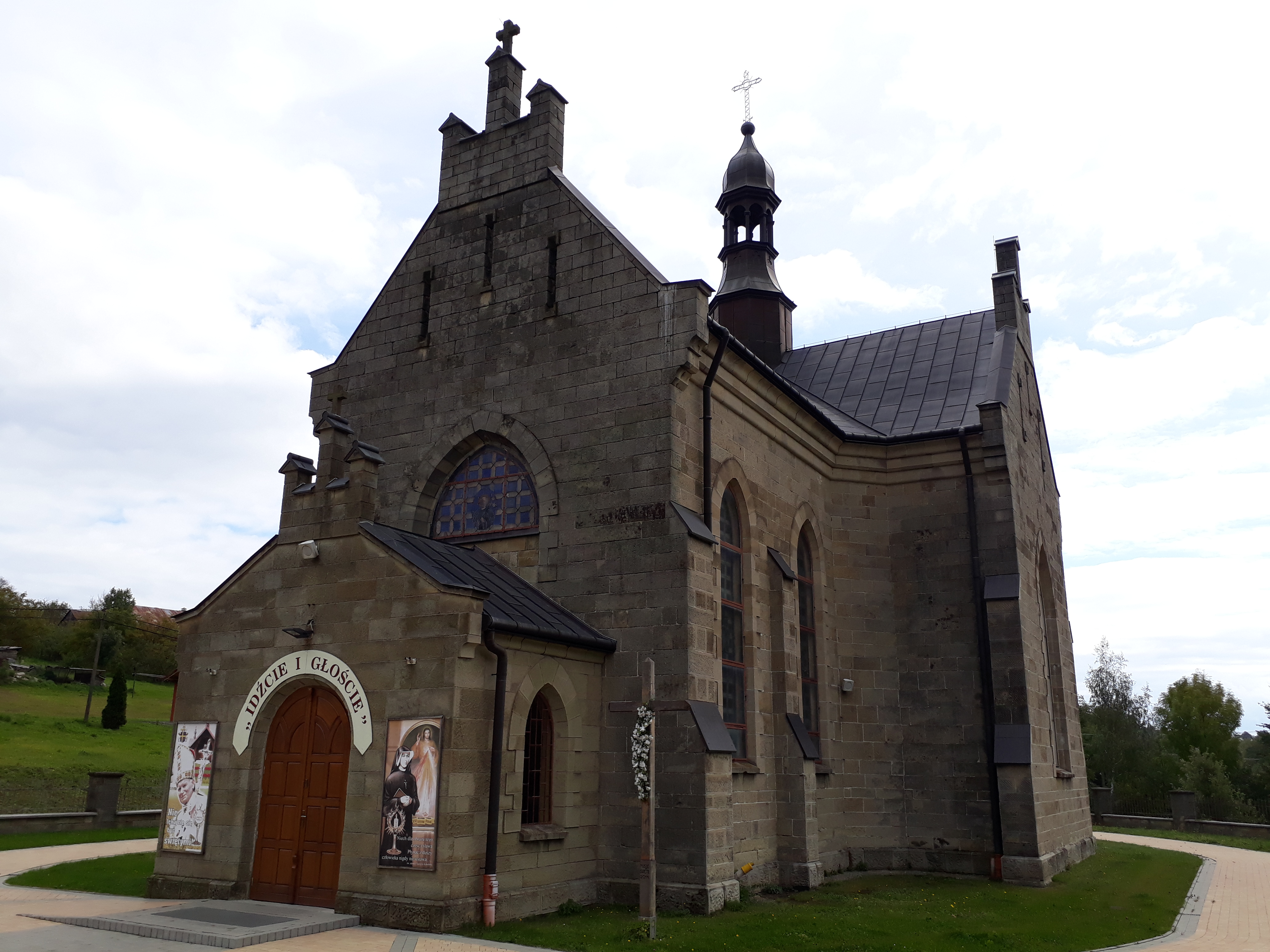 murowany kościół parafialny w Bystrej